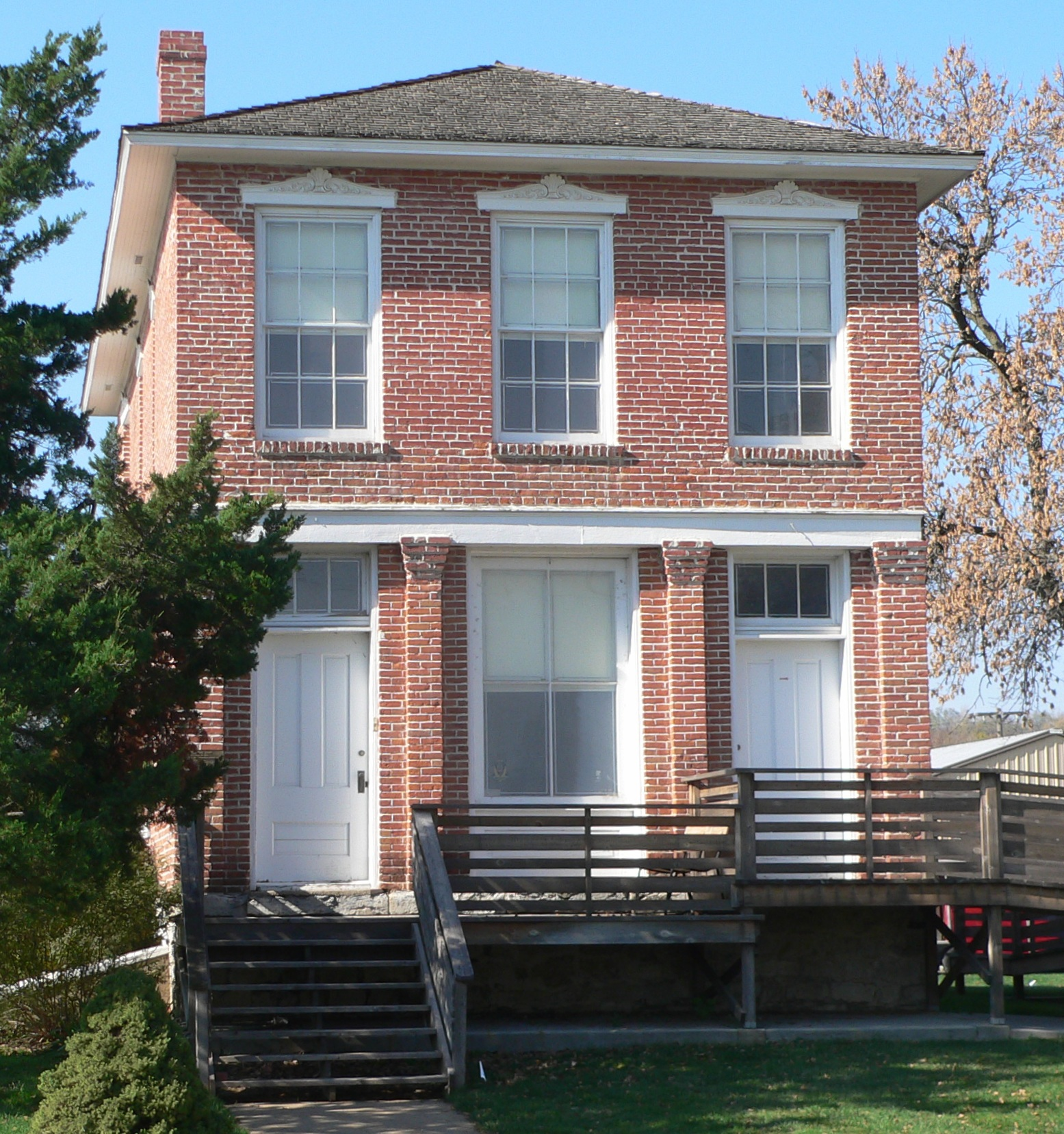 Fontenelle Bank, located at 2212 Main Street (northwest corner of Main and Mission Avenue) in Bellevue, Nebraska; seen from the east, across Main.